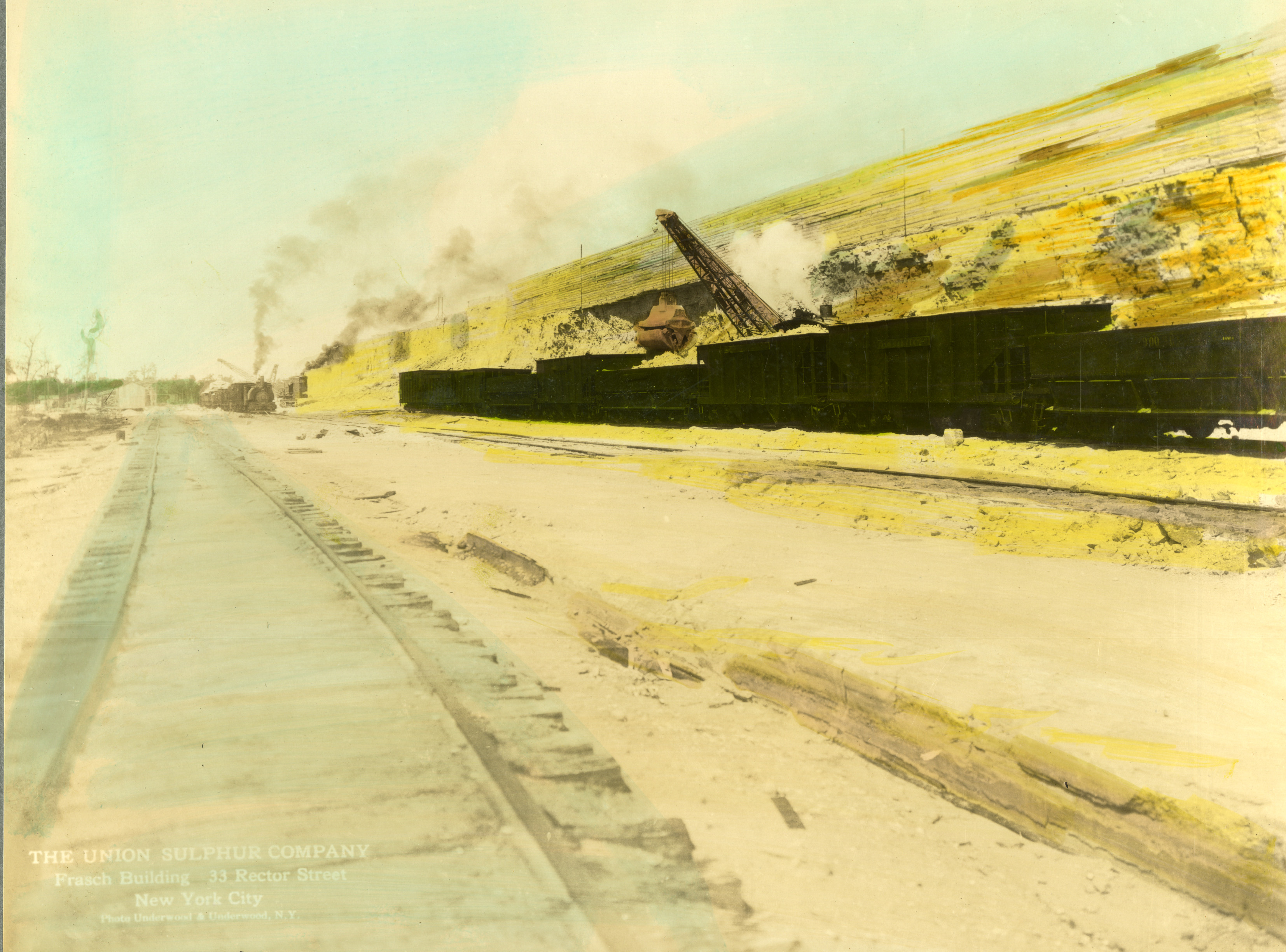 Union Sulphur Co. colorized B&W photo of sulphur being loaded into railcars for transport to Union Sulphur Co. wharf.